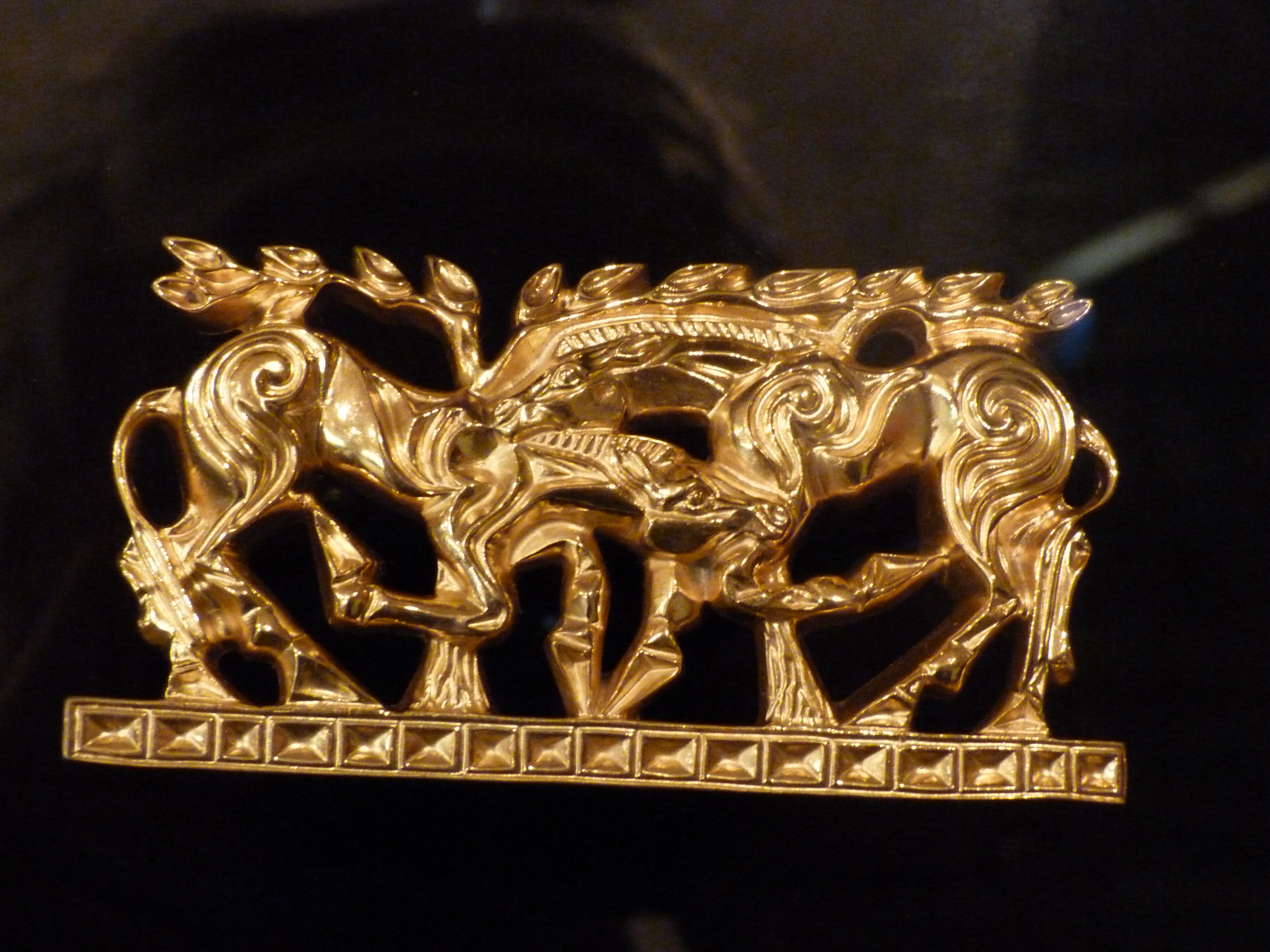 Empire of the Sun. Scytians ! Great, honorable men ! Remember the beginning of your way ! Live on the 13th of November, 2012, Budapest, VAM Design Center. Published under Creative Commons in the Metapolisz DVD line. All of the photos and vids in the Metapolisz DVD line are under Creative Commons and can be used even for commercial - for profit - purposes. Recommended citation: Derzsi Elekes Andor: Metapolisz DVD line Sources: Сенсационной называют свою находку археологи, обнаружившие в Карагандинской области «золотого человека» Sun emperor File:Sun_emperor.JPG Még mindig tagadnunk kell? Szkíta „aranyembert” találtak a kazah régészek A szkíta Napherceg Szkíta kincsekből nyílik egyedülálló kiállítás Budapesten: Badinyi-Jós Ferenc :a tatárlakai korong szövegének megfejtése: „Oltalmazónk! Minden titok dicső Nagyasszonya! Vigyázó két szemed óvjon, Napatyánk fényében!” Szathmáry megfejtése: „Egyetlen, magasztos Teljességünk leáldozóban, de Fény atyánk arca felemelkedik, ismét felragyog, s betölti dicsőségét!”